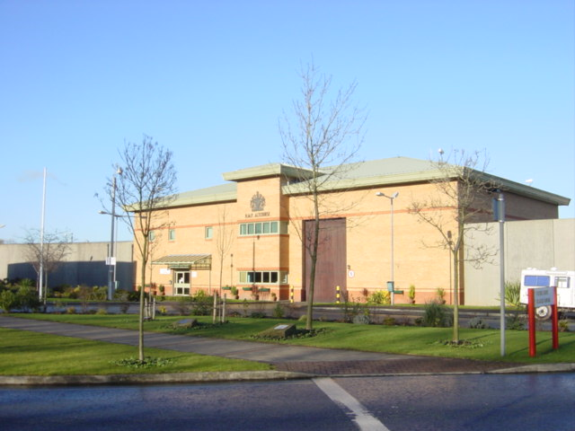 HMP Altcourse was the first designed, constructed, managed and financed private prison in the UK. The prison opened its doors to prisoners on 1st December 1997.